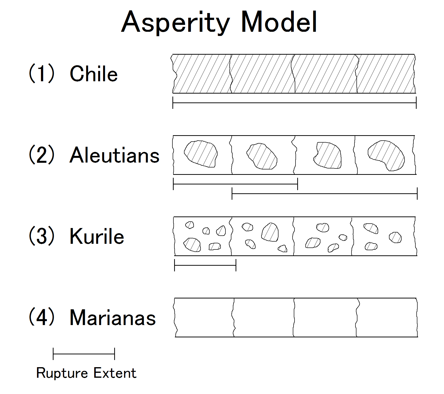 Asperity model